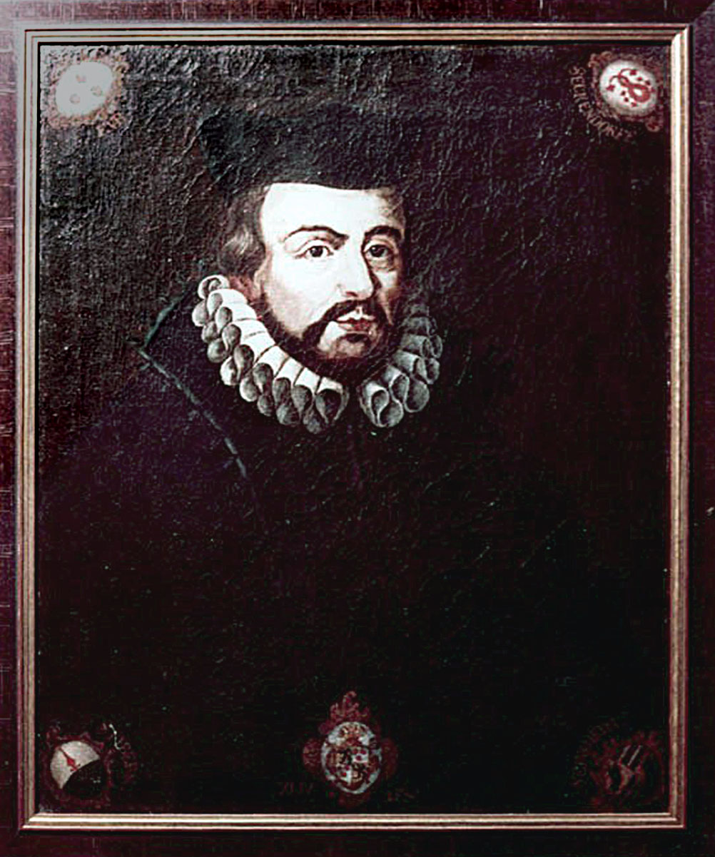 Martin von Eyb, Prince-Bishop of Bamberg (1580-1583)